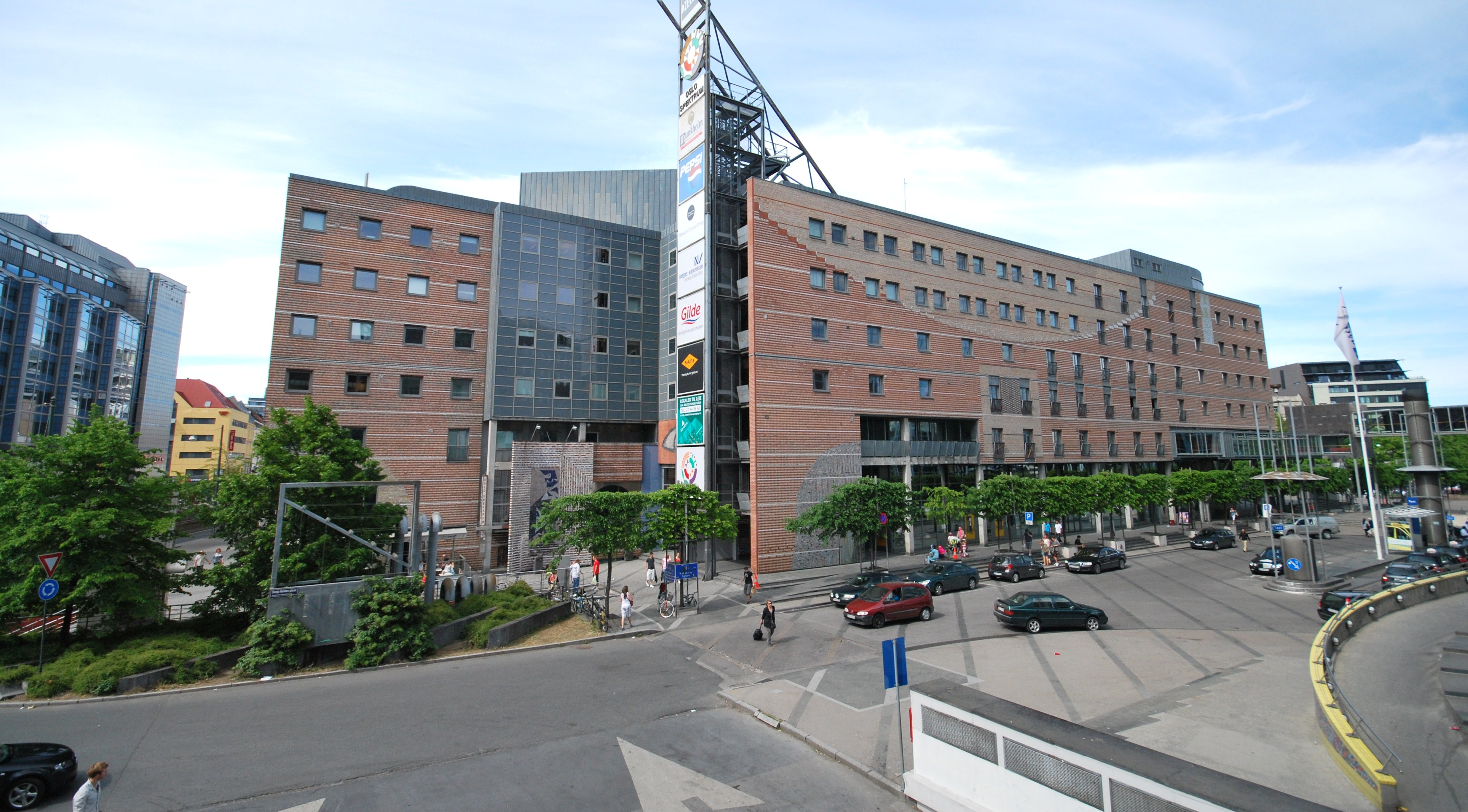 Oslo Spektrum, seen from Sonja Henies plass